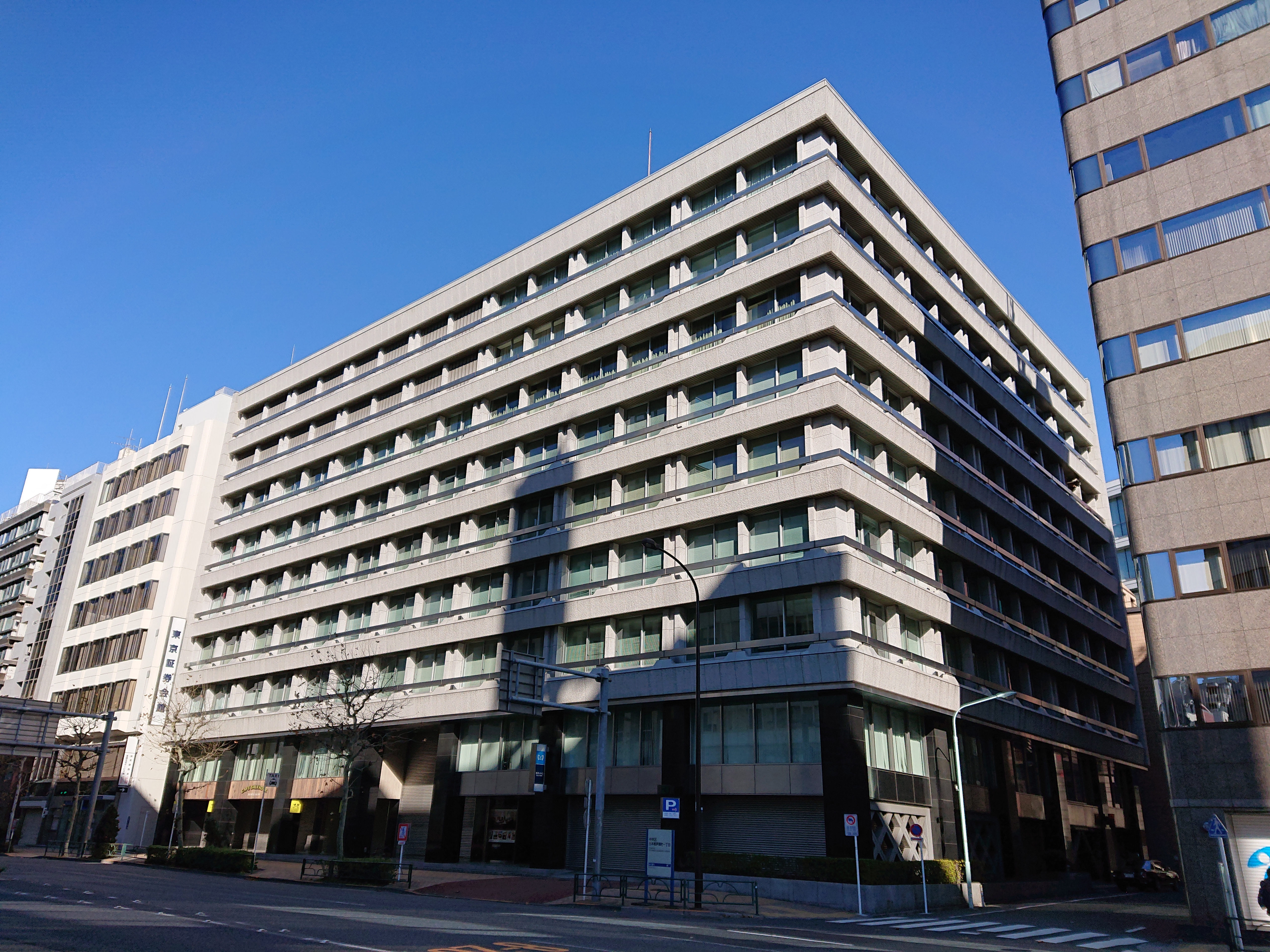 Tokyo Shoken Building (東京証券会館), located at 1-5-8 Nihonbashi-Kayabacho, Chuo, Tokyo, Japan